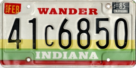 An Indiana license plate issued to an automobile in Johnson County, Indiana in 1984, expiring 1985. Now in the private collection of Jacob A. Newkirk.